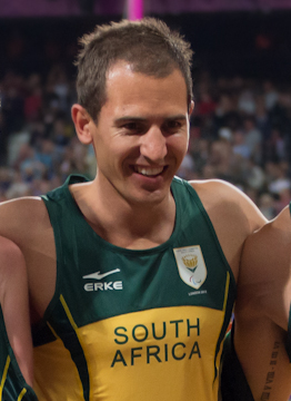 World Record by South African Team in 4x100m Relay. Your will not believe the seats I had! London 2012